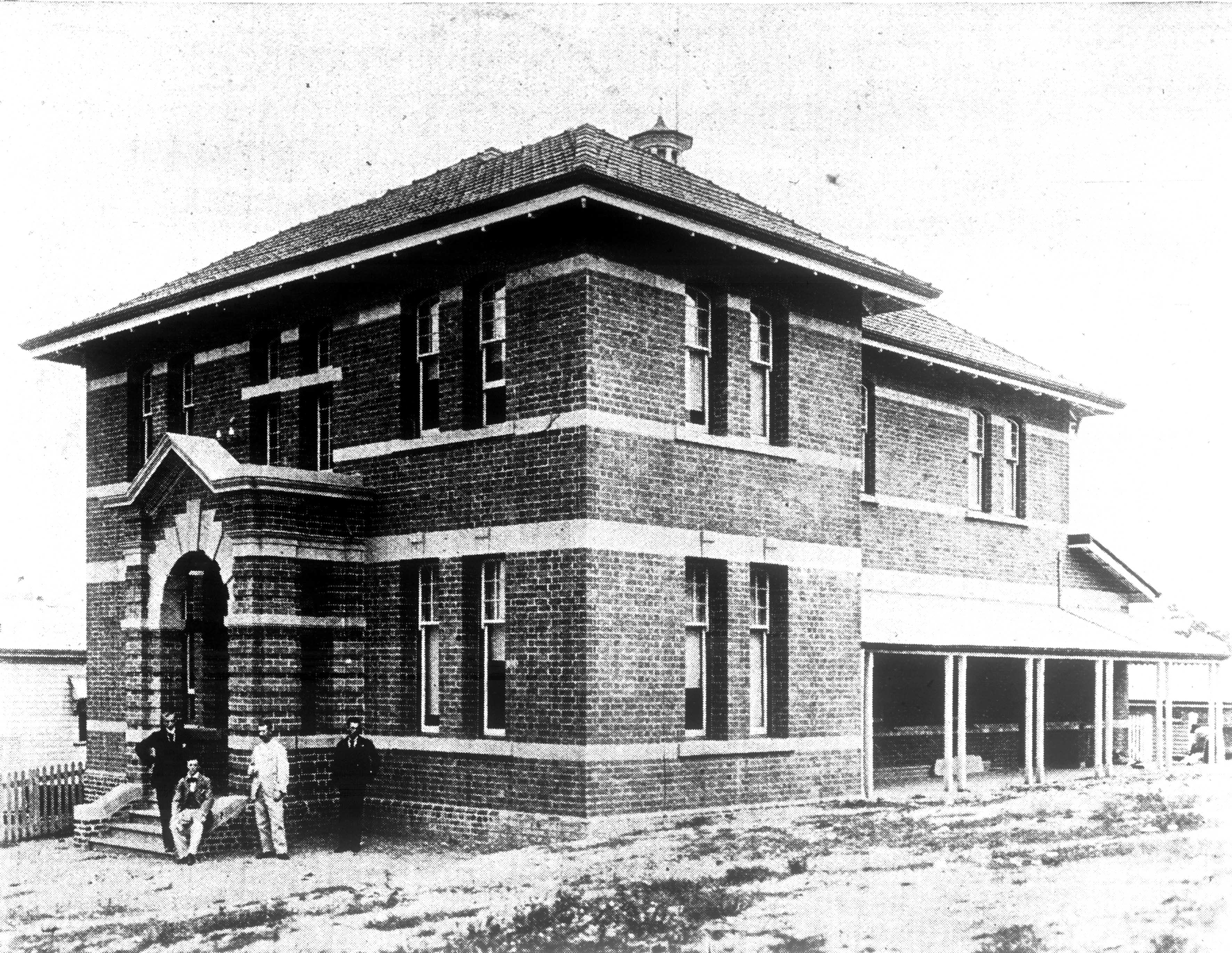 New building for the Queensland Stock Institute at Normanby Hill, Brisbane, Queensland, appearing in the The Queenslander newspaper for an article describing the new premises. Source Caption: THE NEW BUILDING FOR THE STOCK INSTITUTE, IN COLLEGE ROAD.